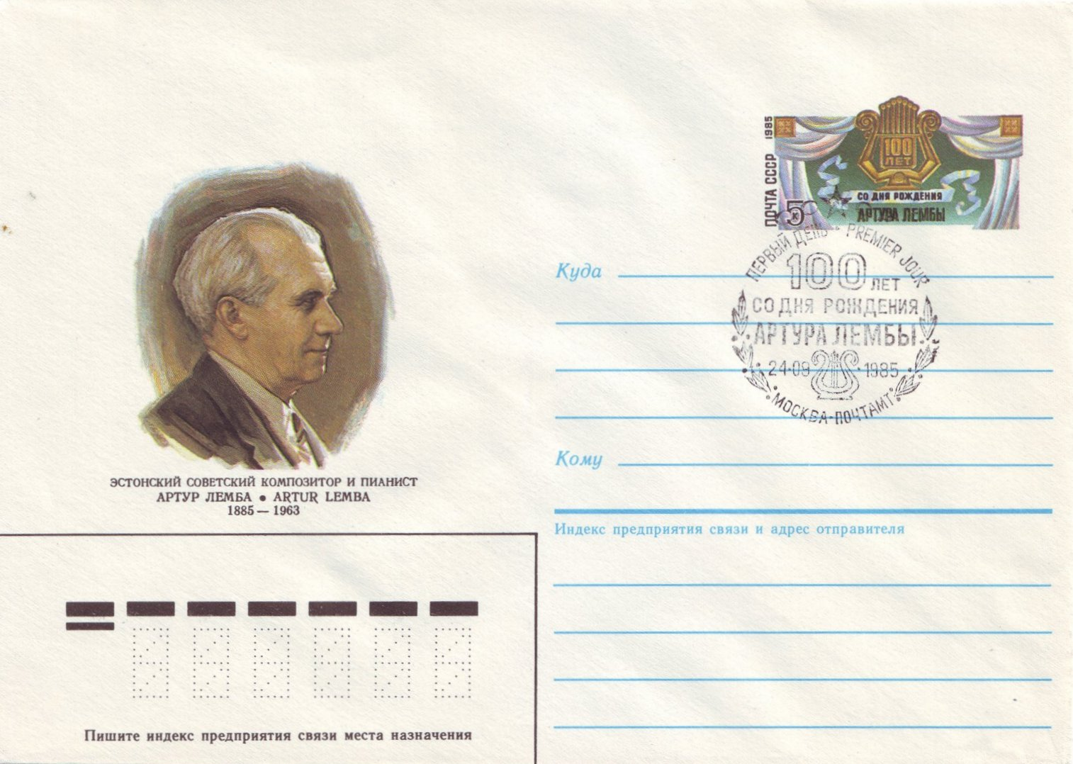 Envelope with imprinted stamp of the Soviet Union, with a portrait of the Estonian composer Artur Lemba (1885-1963). The envelope has been cancelled in Moscow on the first day of issue, 24 September 1985 (Lemba’s 100th birthday).